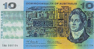 This is an image of the front of the paper Australian ten-dollar note, circulated from 1966 to 1994